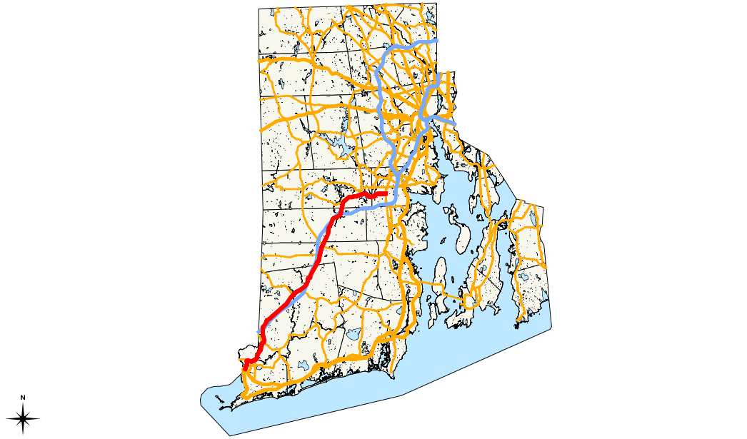 Map of Rhode Island Route 401. Data is from RIGIS database [1]